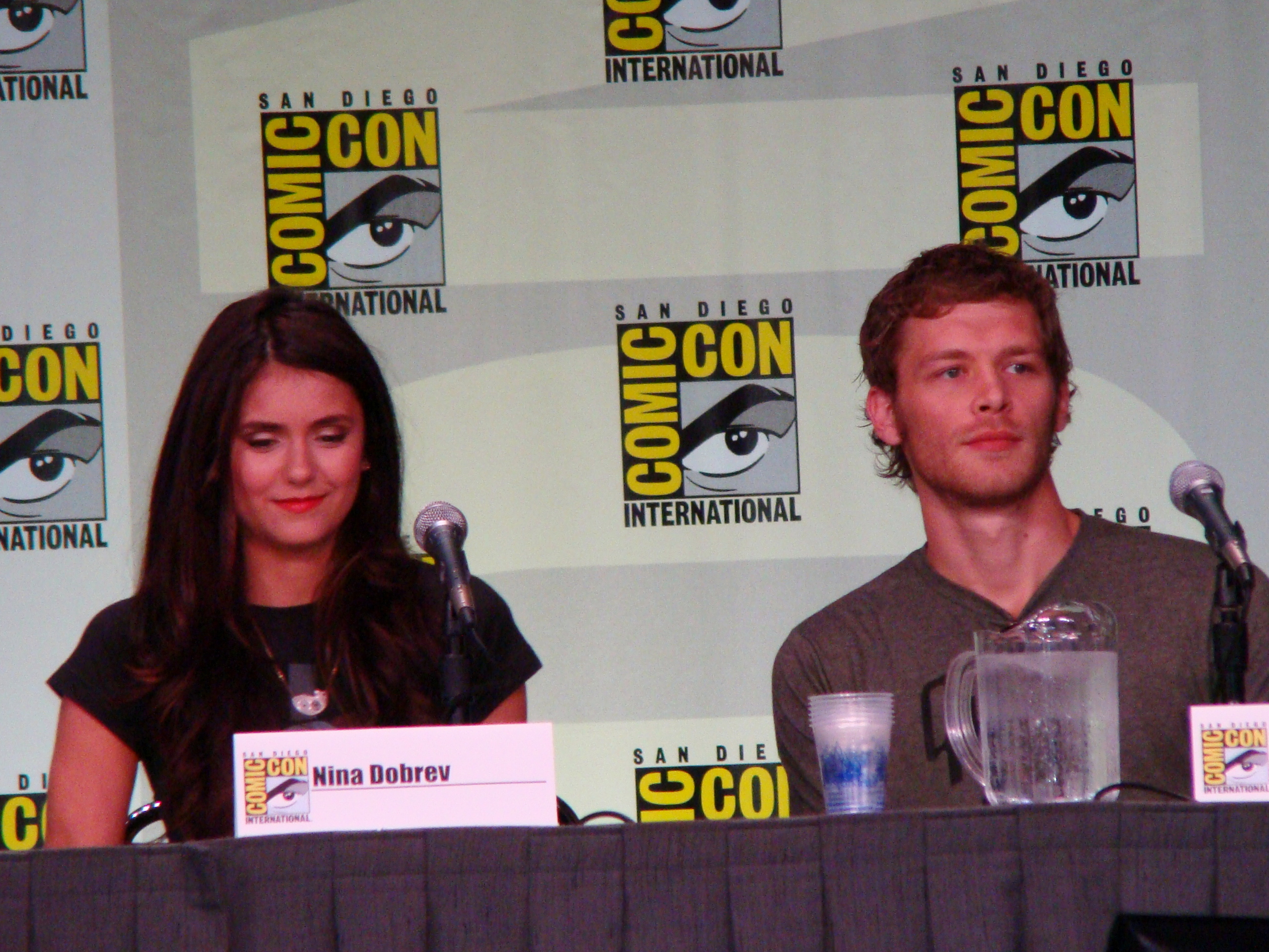 Vampire Diaries Panel at the 2011 Comic-Con International